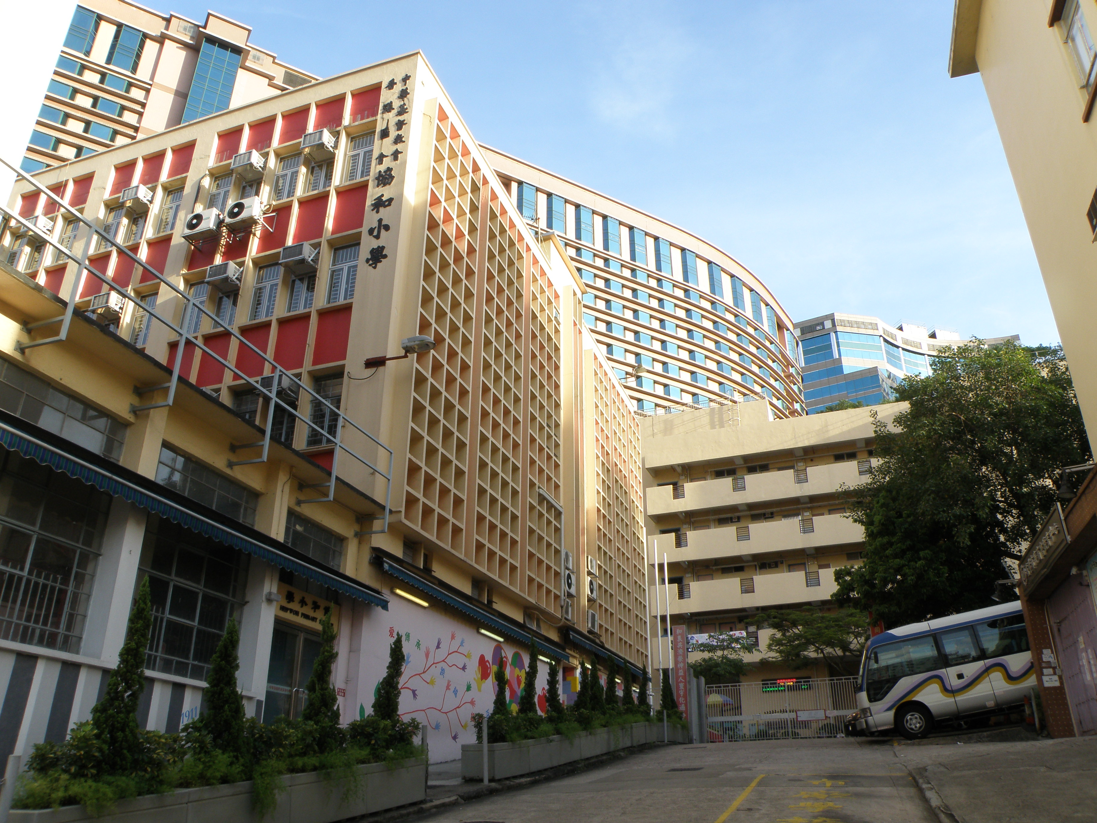 C.C.C. Heep Woh Primary School in Mong Kok, Hong Kong.